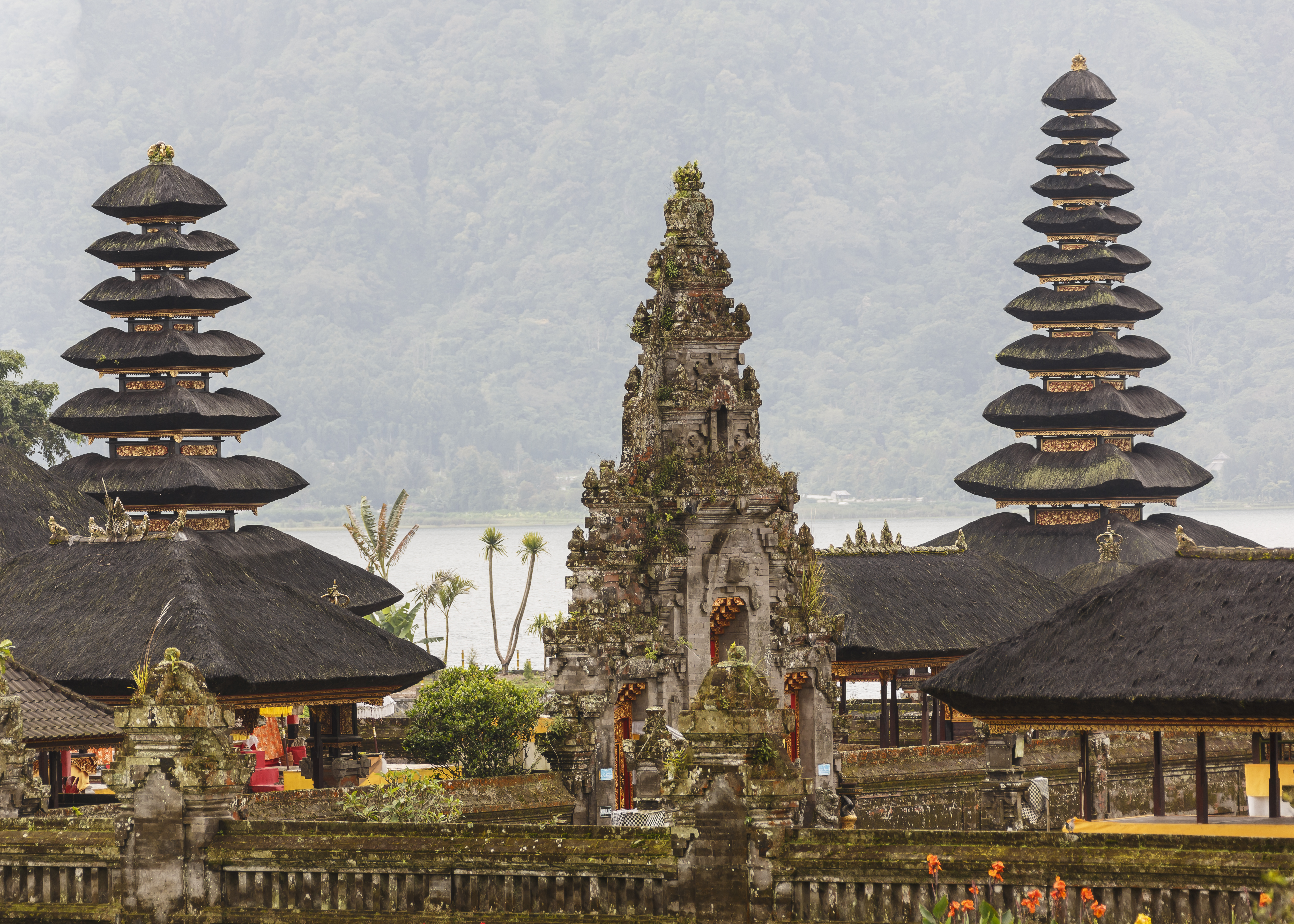 Bratan, Bali, Indonesia: Pura Ulun Danu Bratan, a balinese hindu temple.